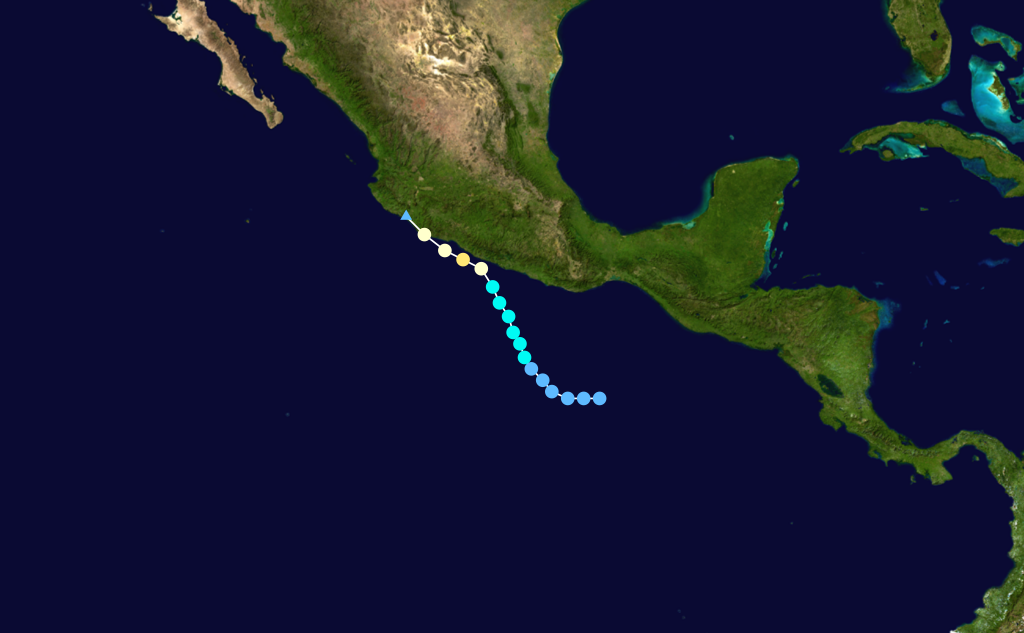 Hurricane Andres (1979) track. Uses the color scheme from the Saffir-Simpson Hurricane Scale.